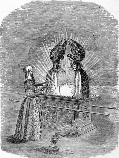 The Ark and the Mercy Seat, illustration in "Treasures of the Bible" by Henry Davenport Northrop, published by International Publishing Company 1894